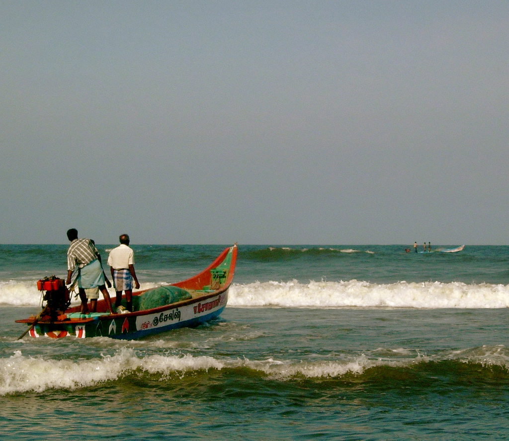 Fishermen going out to sea at Mamallapuram